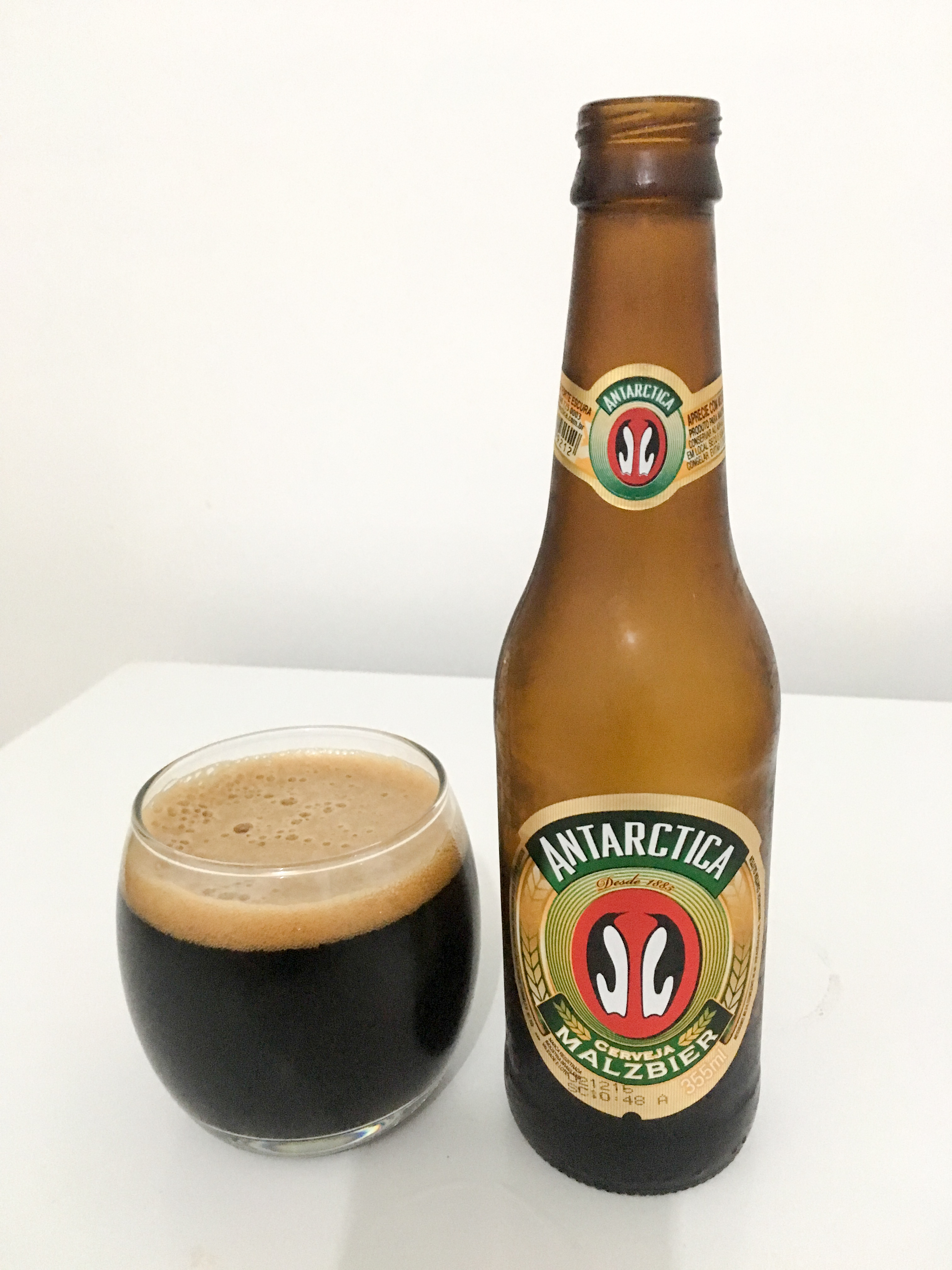 Antactica Malzbier.